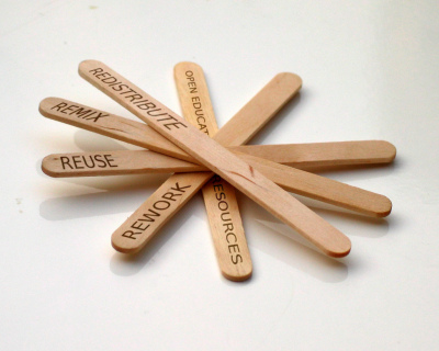 lollipops sticks as an example of derivative CC-BY work.